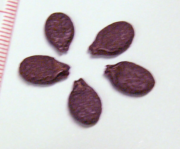 Seeds of Luffa acutangula Roxb. Each division on the ruler is 1 mm. Photo taken by WingkeeLEE in May, 2007.